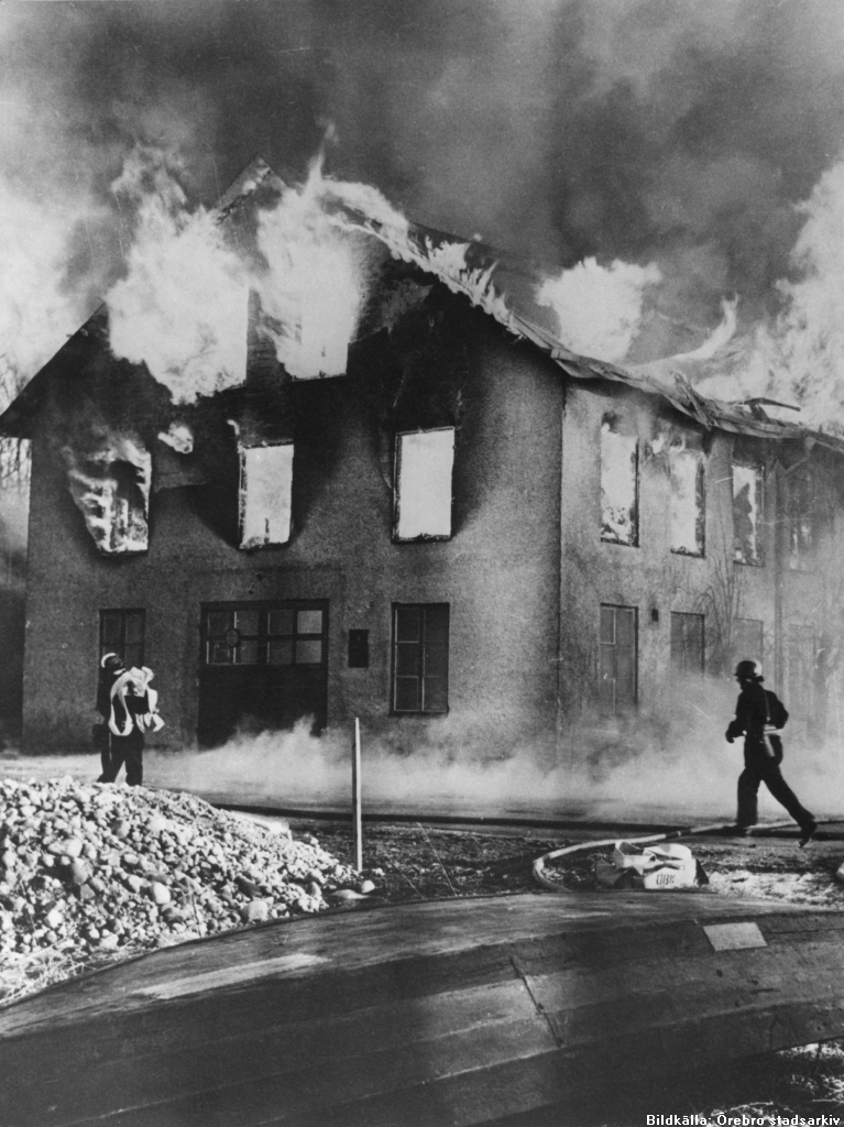 A pottery plant in Örebro, Sweden, at fire